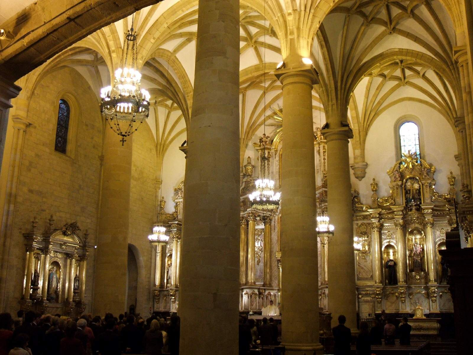 Iglesia de San Vicente de Abando (Bilbao)